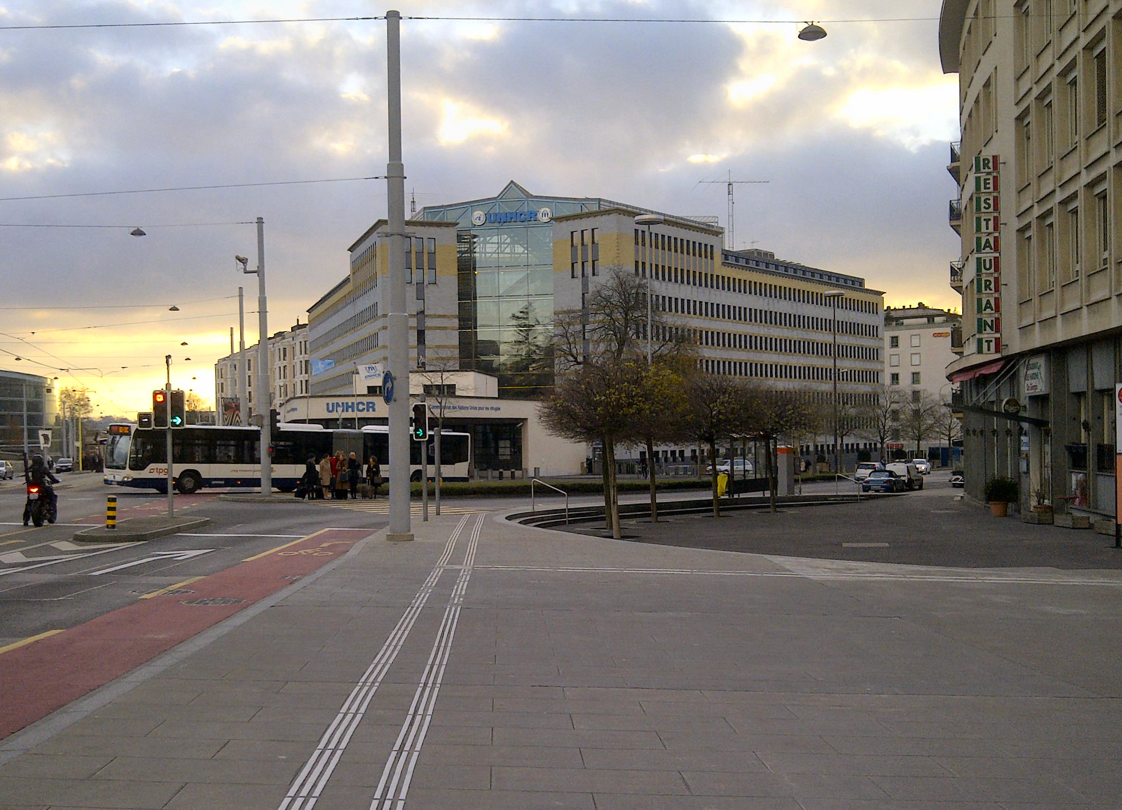 UNHCR building in Geneva, November 2013